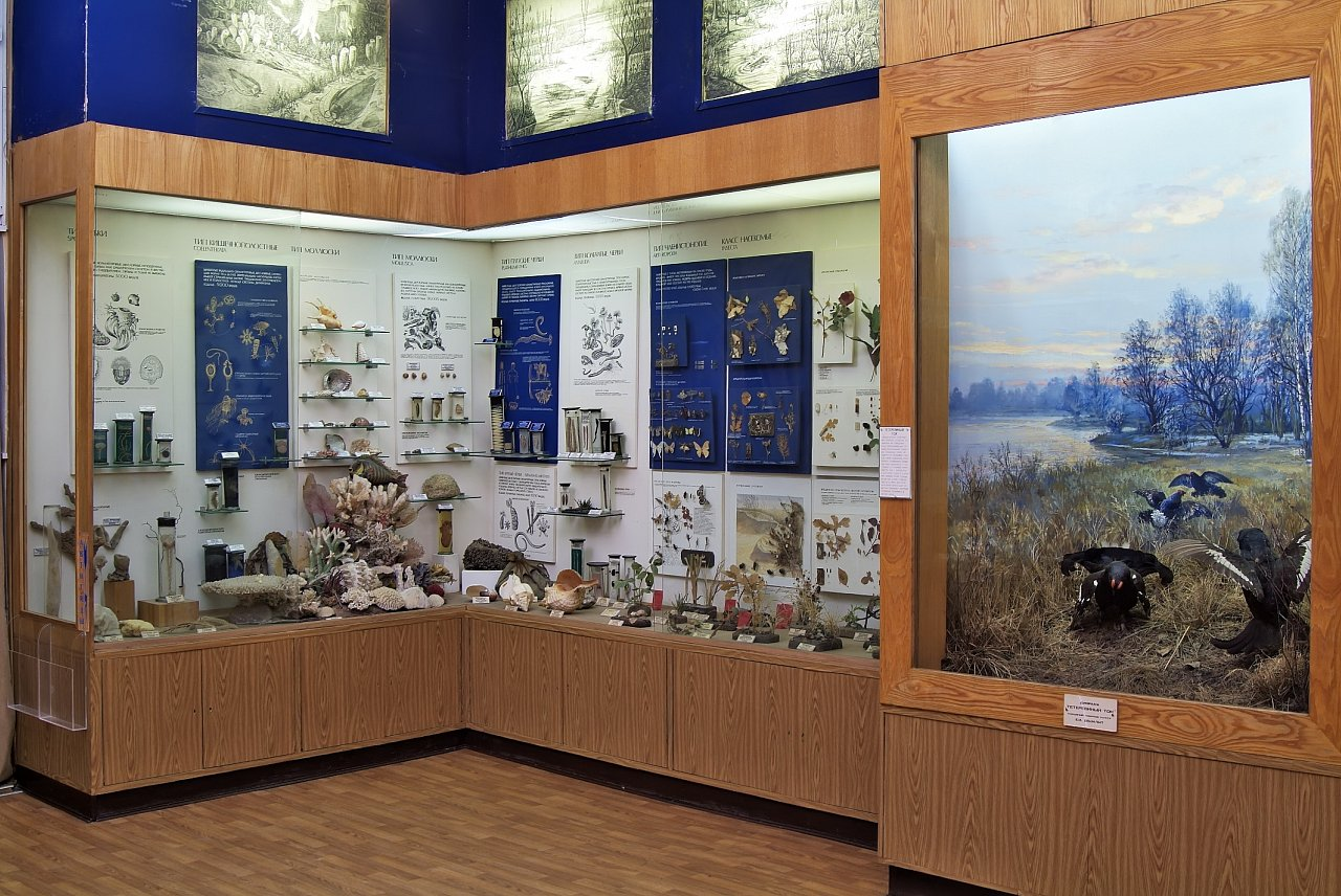 hall 8 of rusian state biological museum named after timiryazev